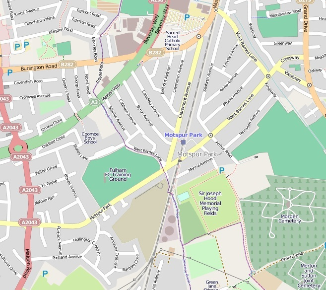 Street map of the suburb Motspur park in South West London, UK.